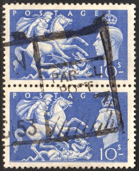 1951 SG511 10s used pair with 1953 parcel cancel.